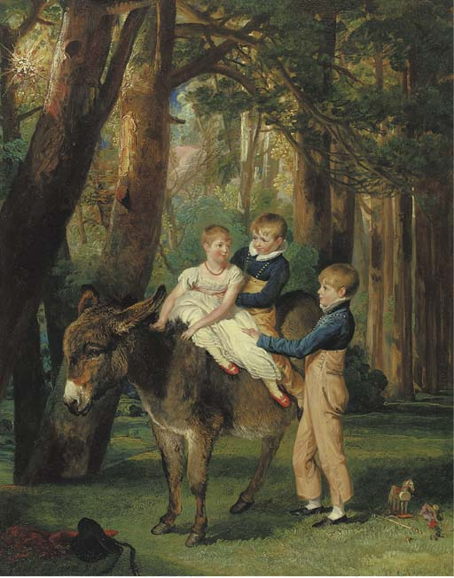 Group portrait of John, Theophilus and Frances Levett, full-length, the younger two seated on a donkey, in a wooded landscape.